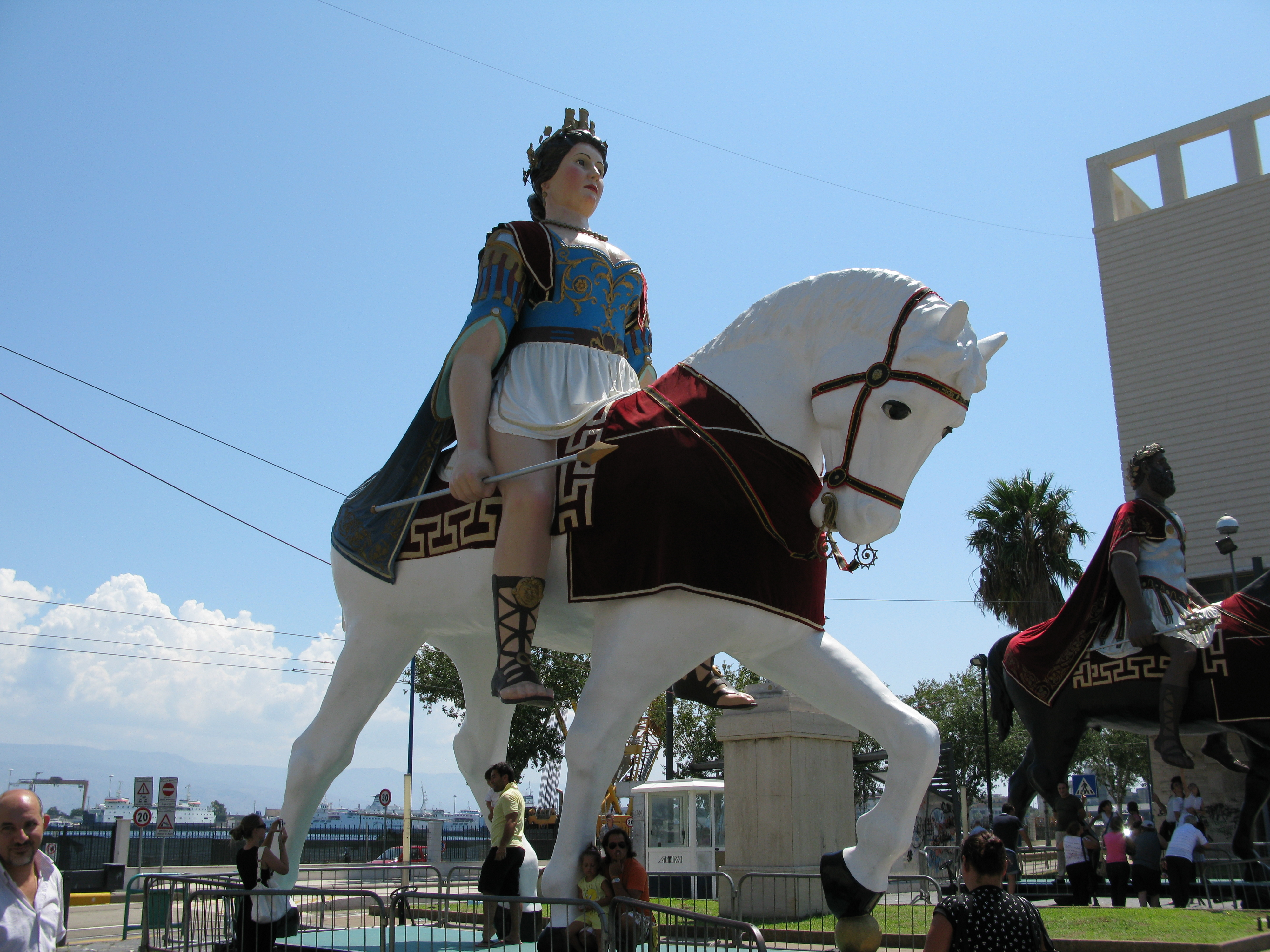 I Giganti di Messina Mata e Grifone ("U Giganti ca Gigantissa")